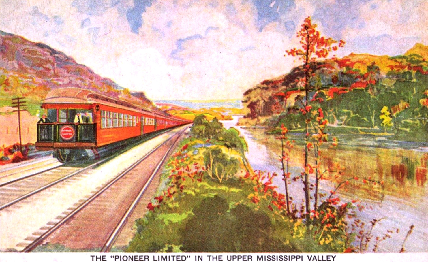 Postcard depiction of The Pioneer Limited (train), which traveled between St. Paul, Minnesota and Chicago.